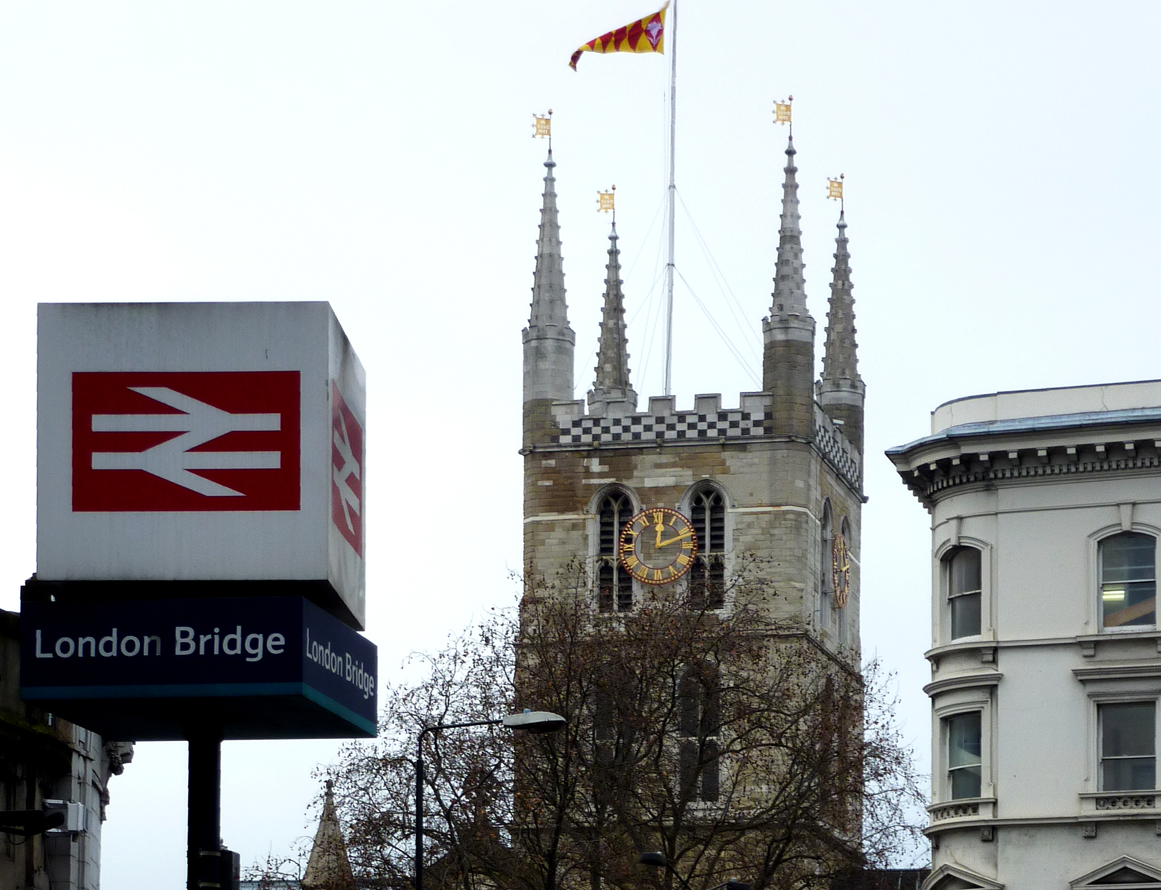 The tower of Southwark Cathedral, situated on the south bank of river Thames and close to the London Bridge.